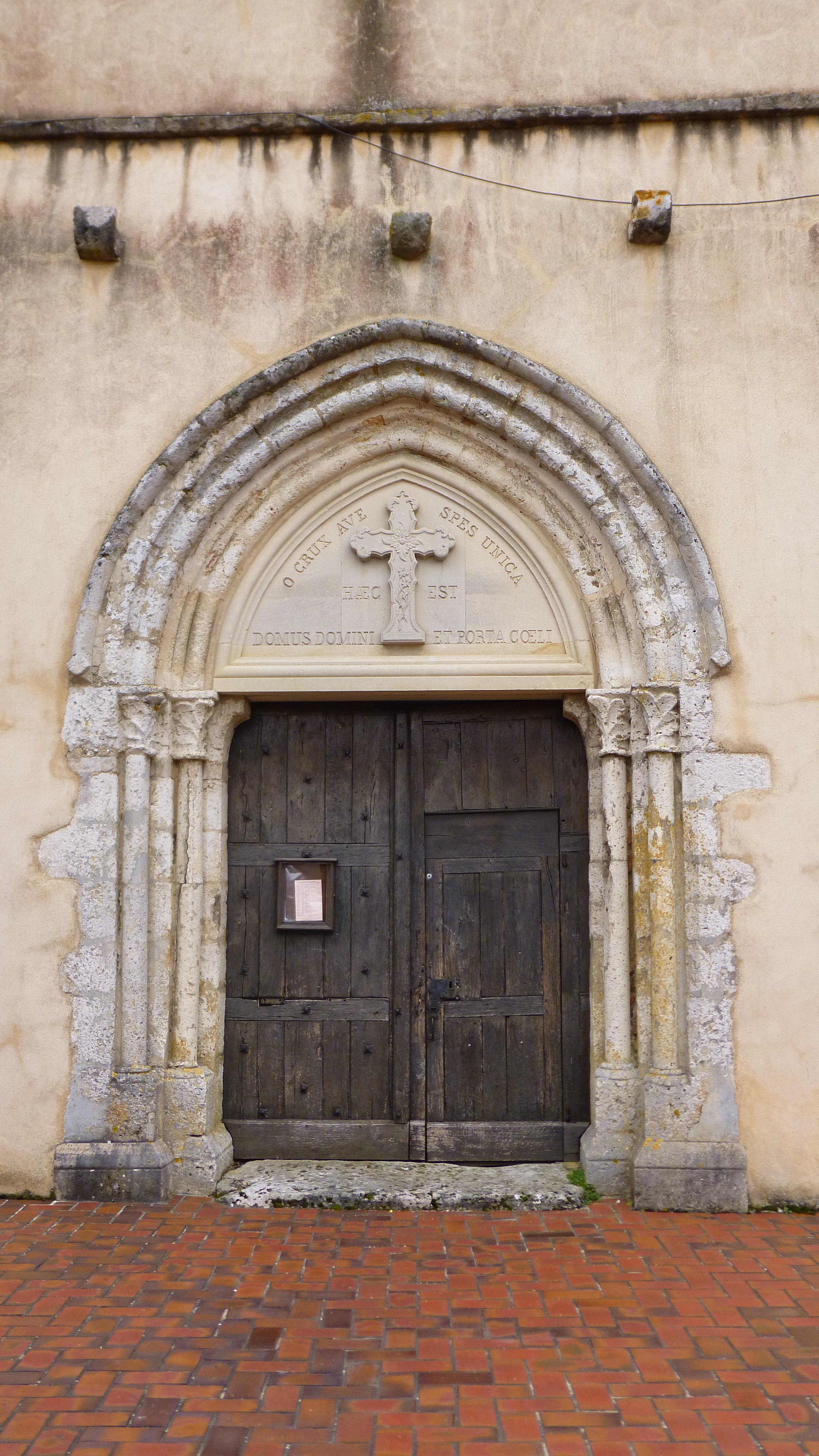 Perreux, Yonne, Burgundy, France. The church porch. View from the west.